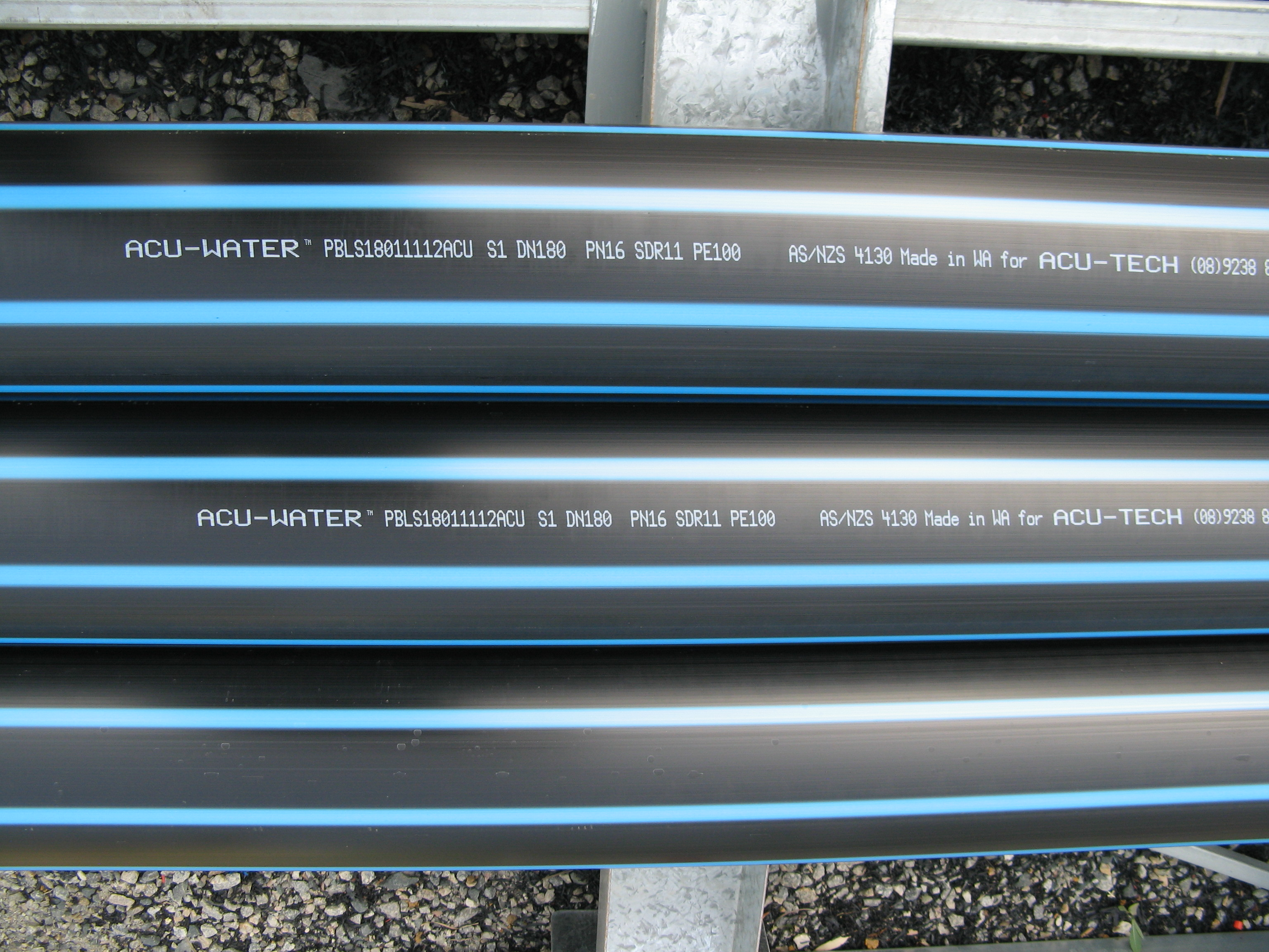 HDPE Pipe with blue stripes